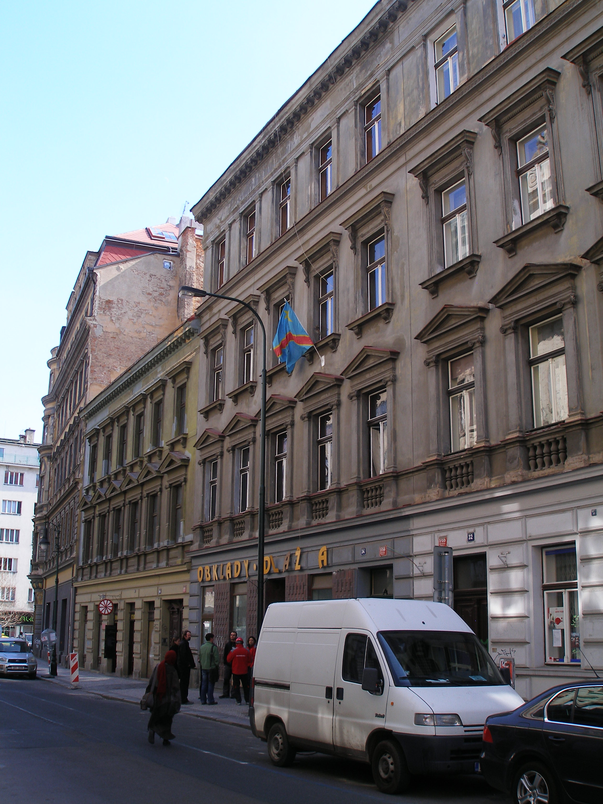 Embassy of the Democratic Republic of the Congo in Prague in the Czech Republic.